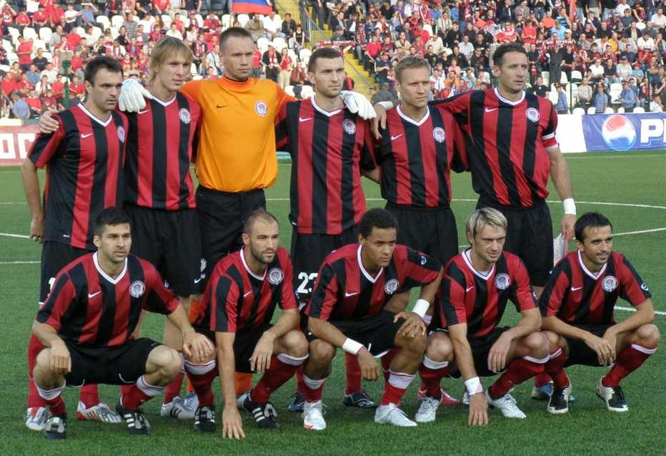 FC Amkar in UEFA Europa League play-off round match against Fulham F.C.